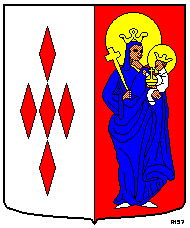 Coat of arms of Kessel, province of Limburg, The Netherlands.